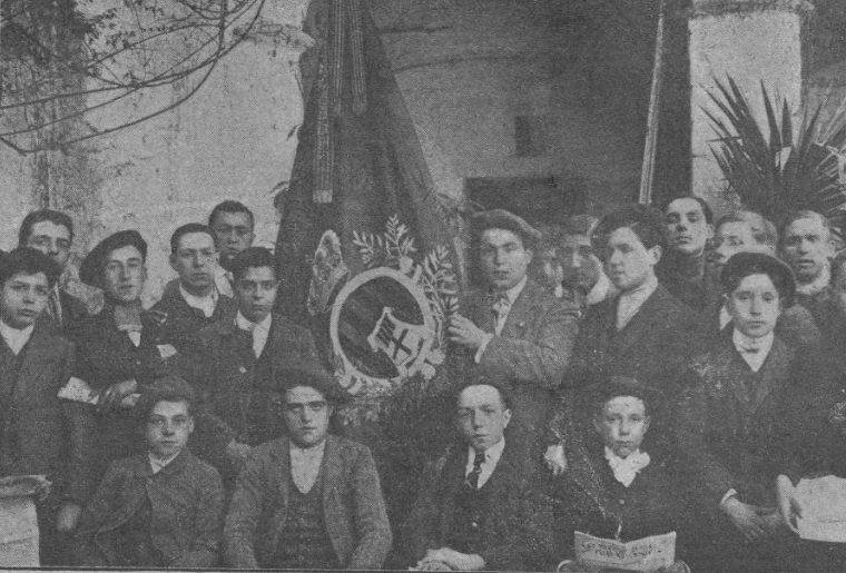 first known photograph of Requete. Boys from the Manresa branch, the press section